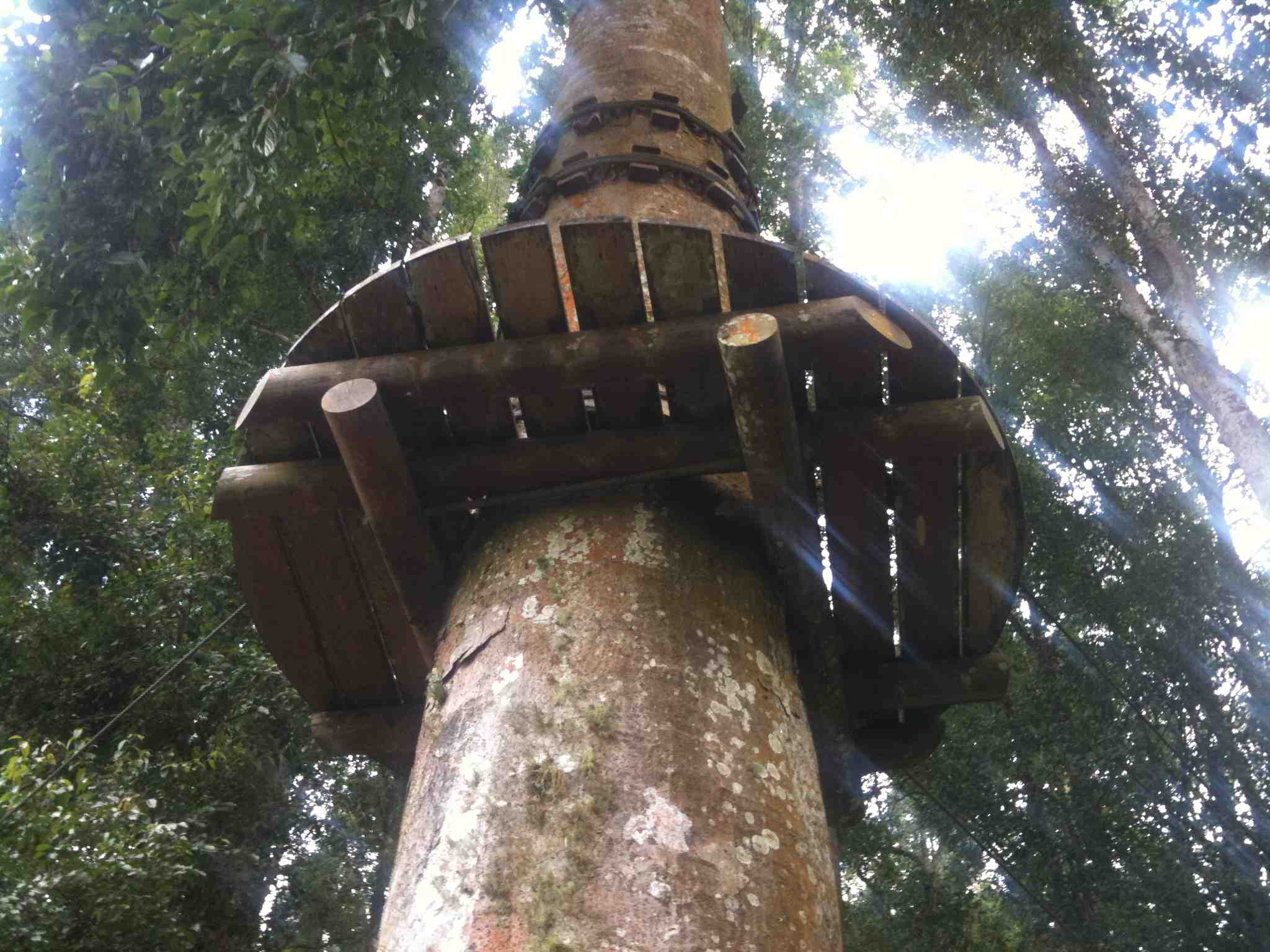 Bali Treetop Adventure Park_3